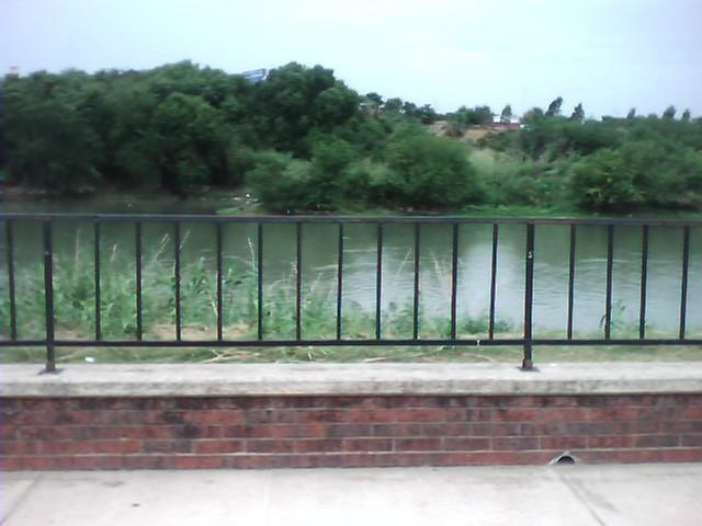 Rio Grande in Laredo, Texas (South Texas)